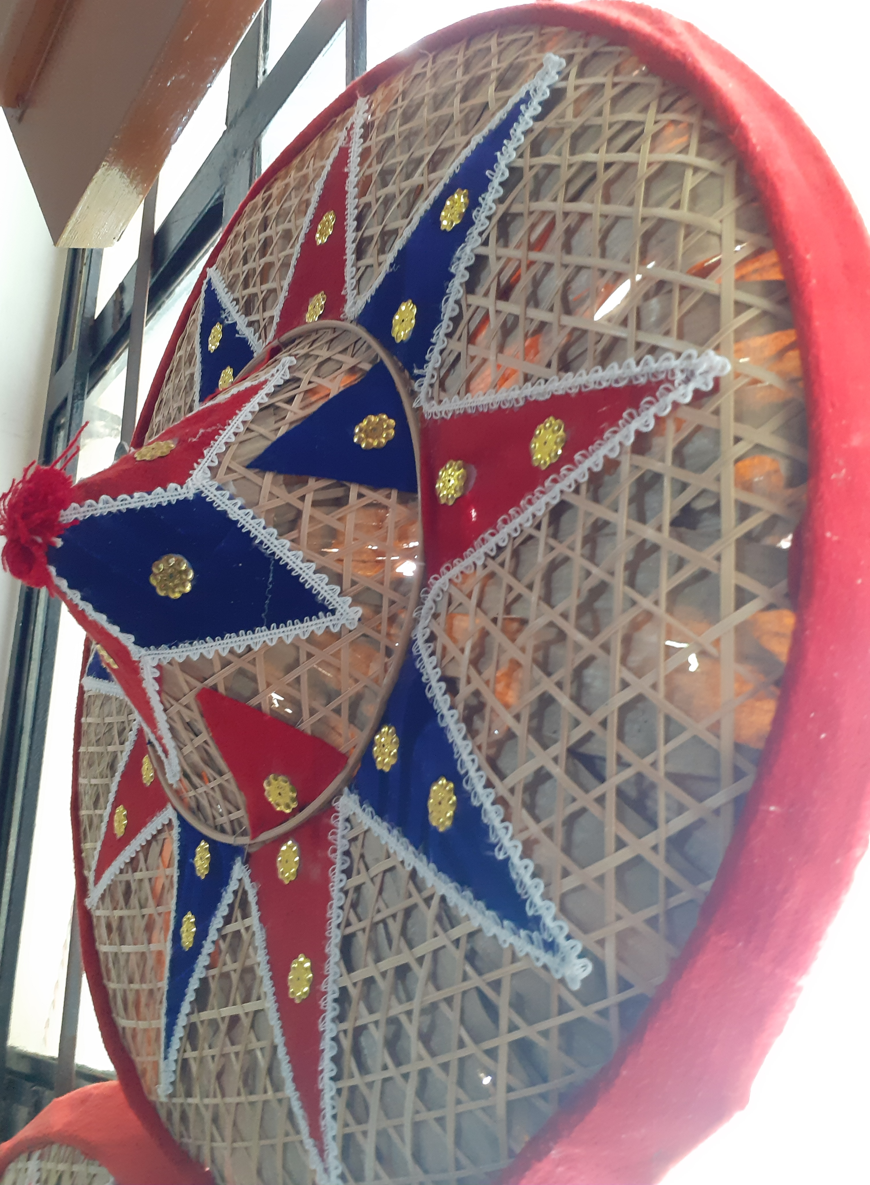 A beautifully adorned colourful Jaapi